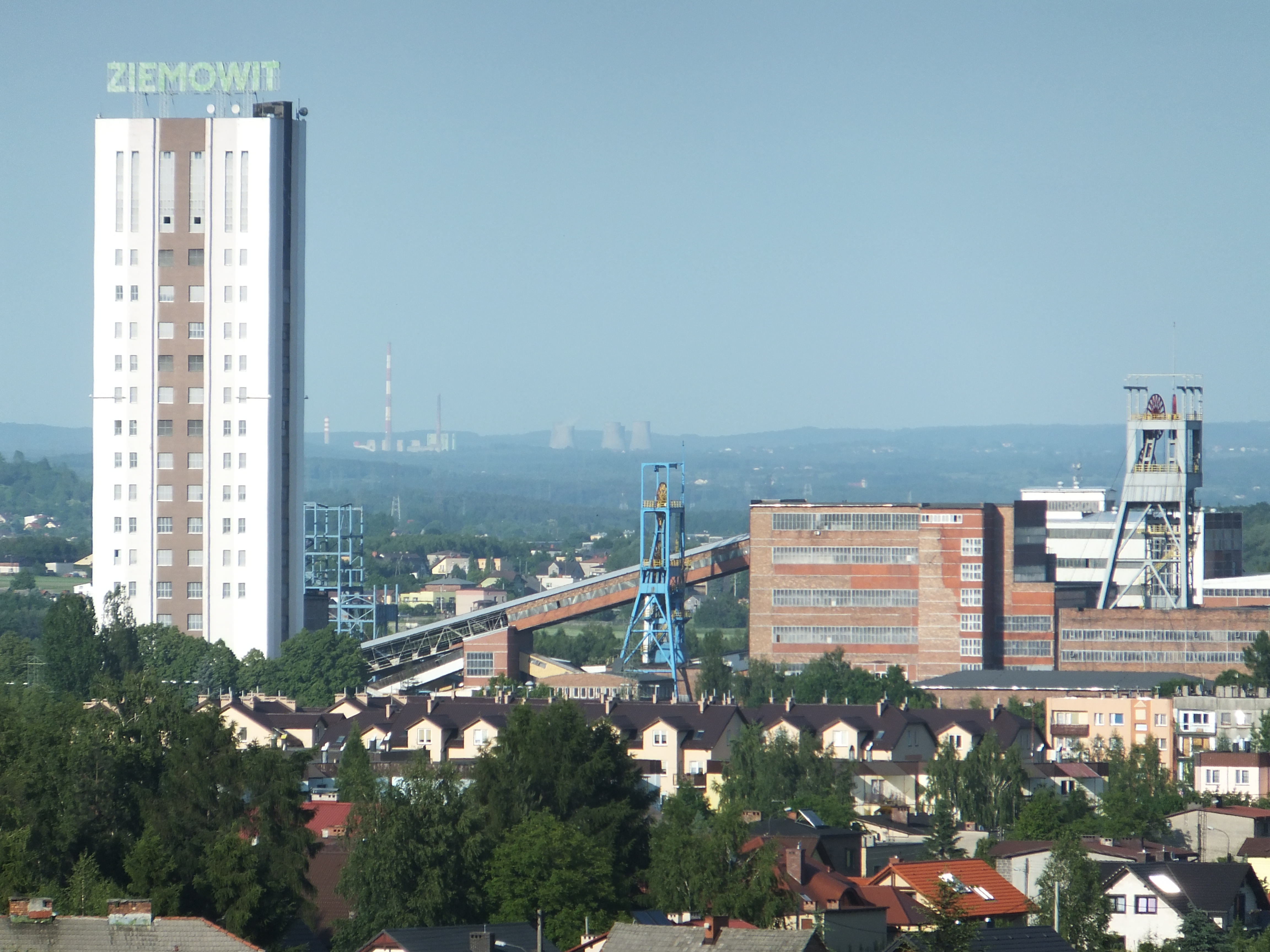 Coal Mine Ziemowit in Lędziny (Poland), view from the hill Klimont.